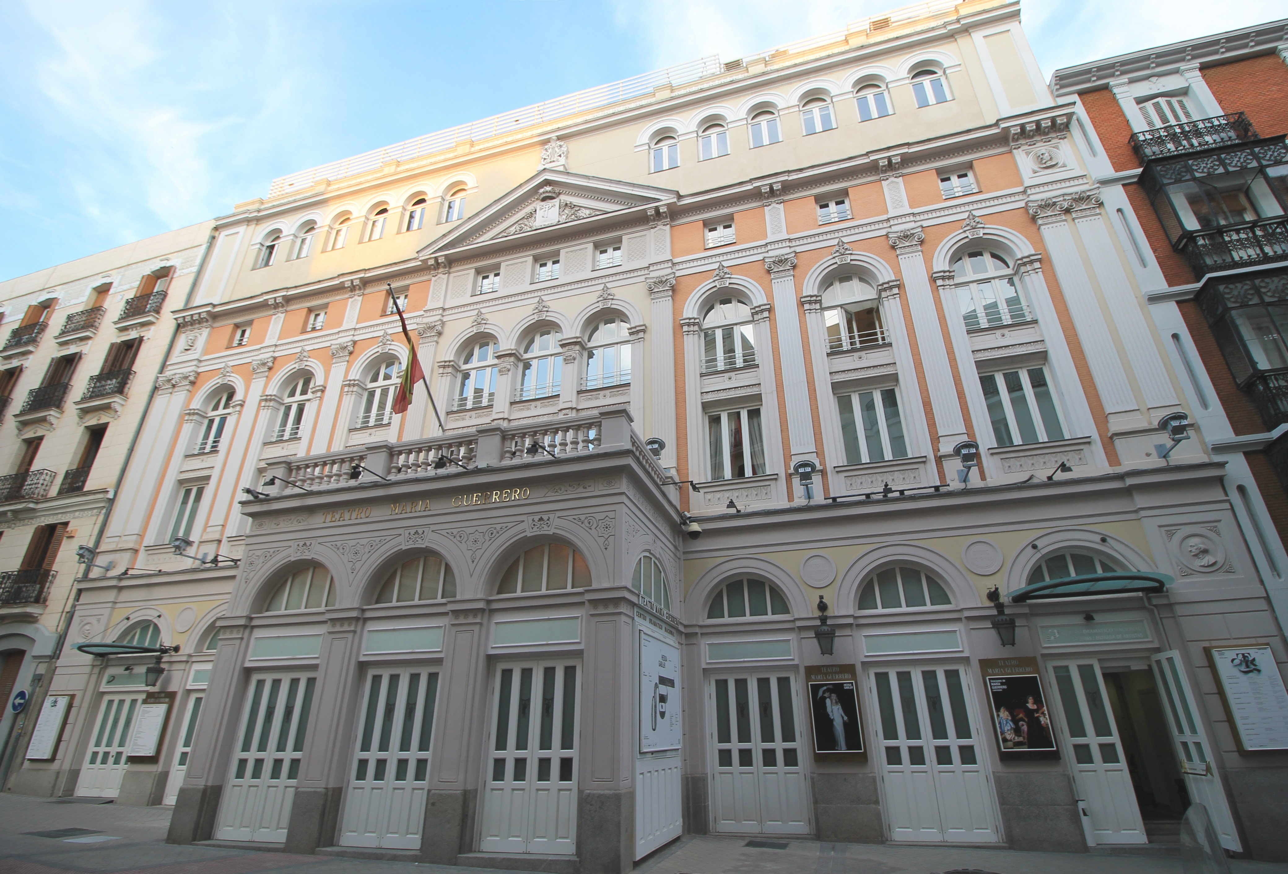 Façade of Teatro María Guerrero (a theatre) in Madrid (Spain).